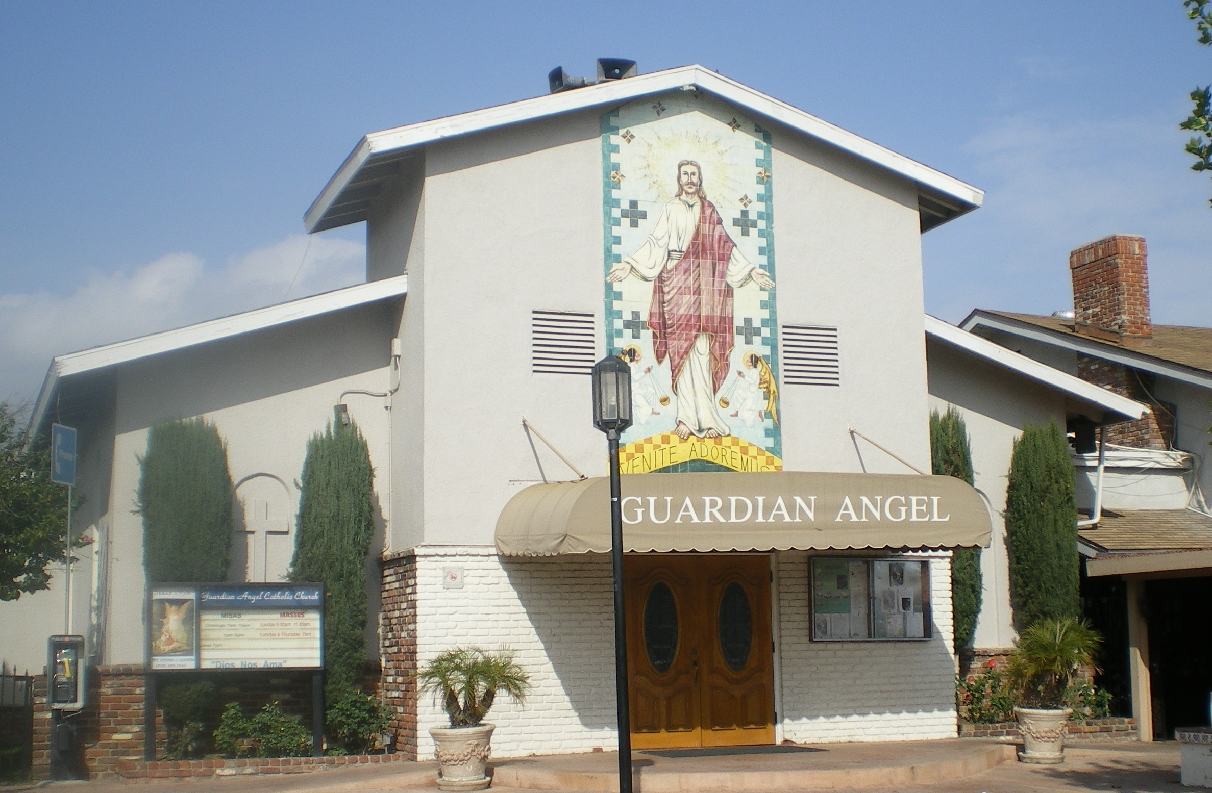 Guardian Angel Catholic Church — in the Pacoima community of Los Angeles, northeastern San Fernando Valley, California.